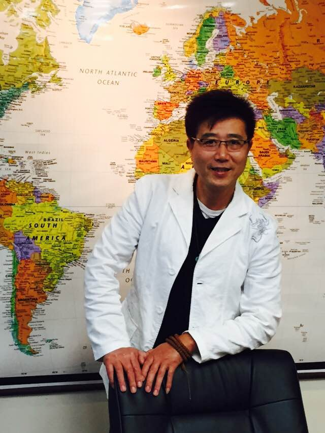 Mike Sun in his office